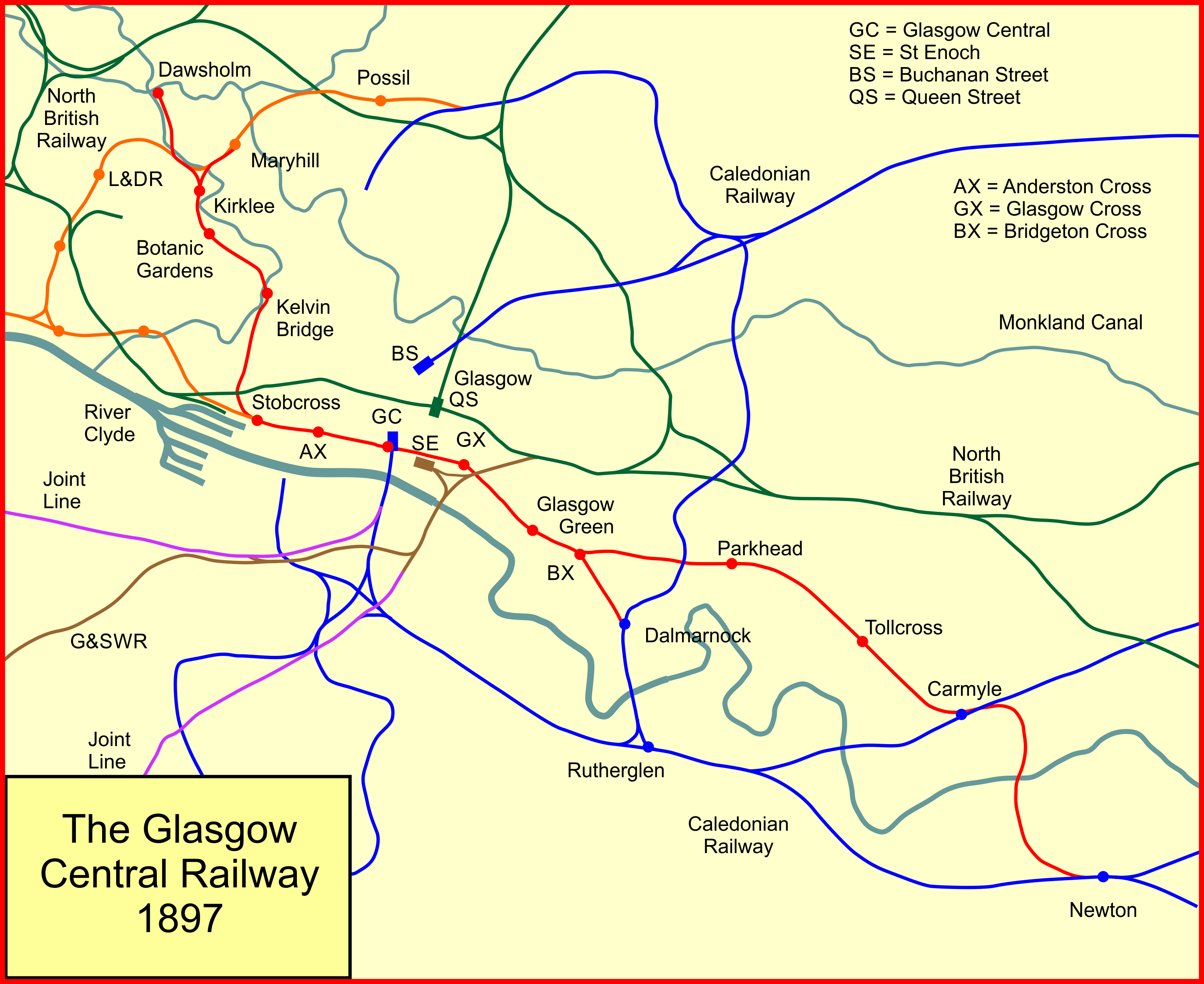 System map of the Glasgow Central Railway, Scotland, in 1897